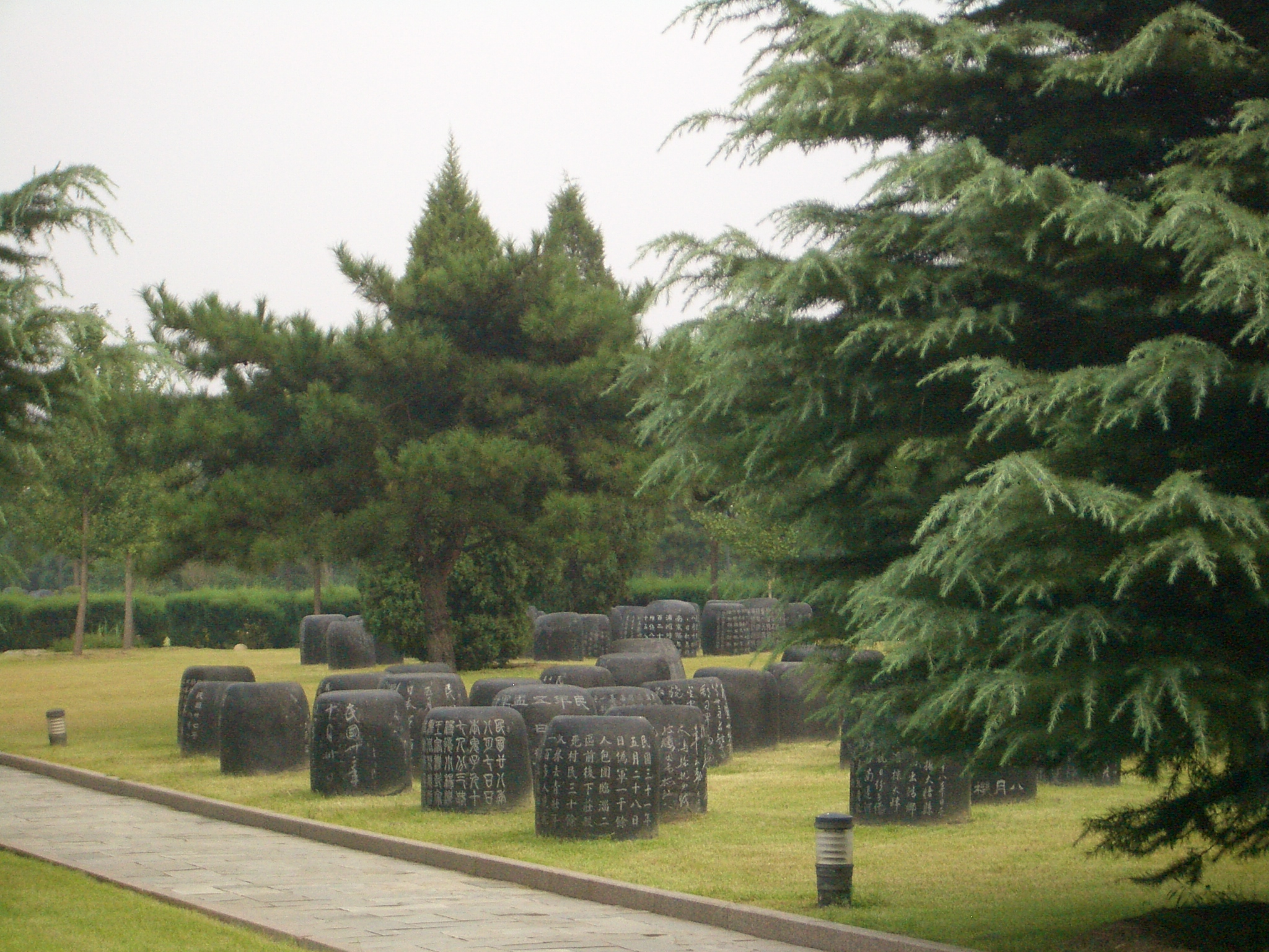 This photo shows a small section of the 22-hectare sculpture park located across the road from the southern wall of Wanping Castle. The text on the row of black stone drums. forming the "Garden of Stone Drums" (石鼓园) along the walls and in the sculpture park tells the story of the War againt Japan that followed the Marco Polo Bridge Incident.